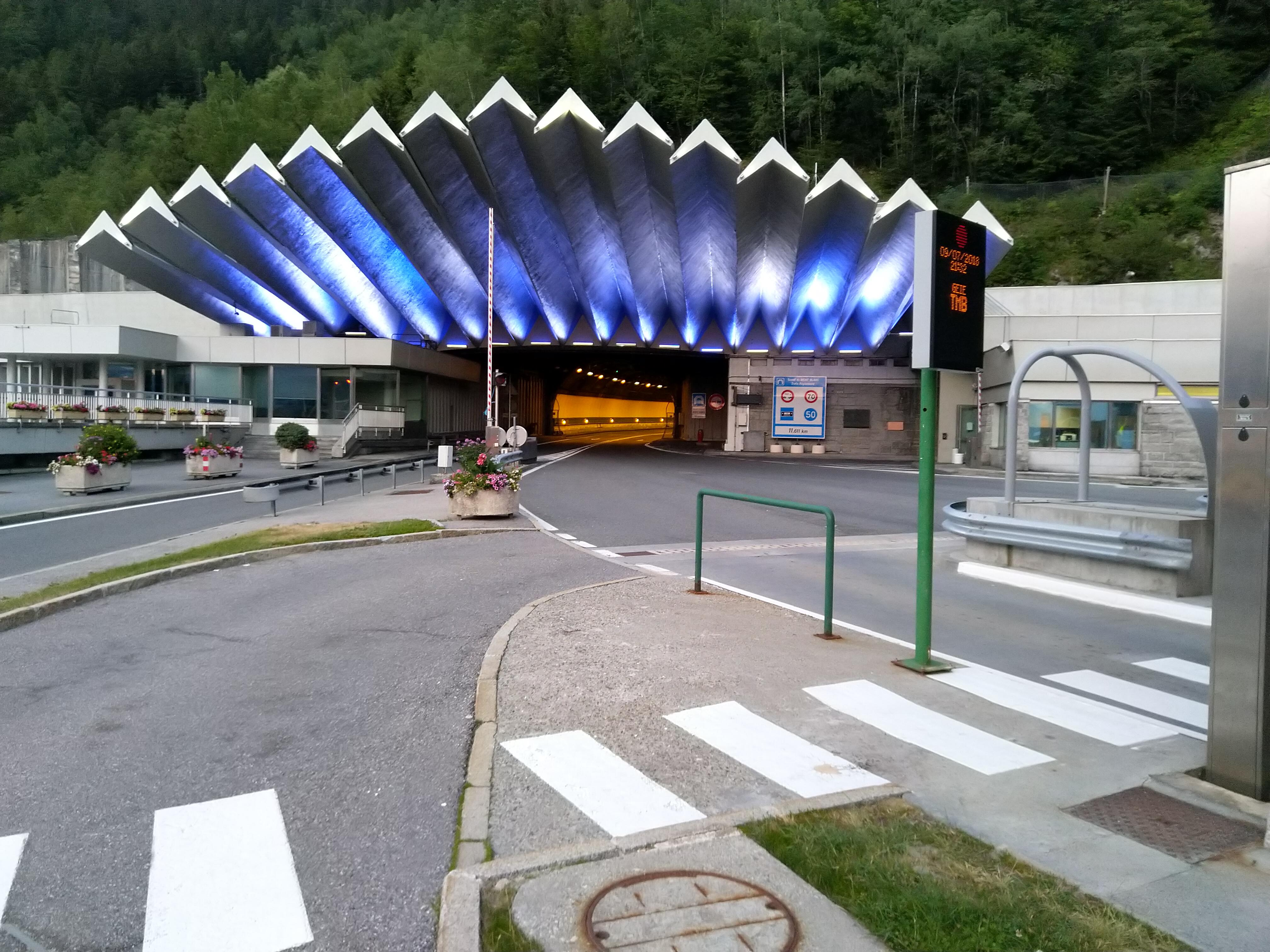 Mont Blanc tunnel in Chamonix France. Picture from july 2018